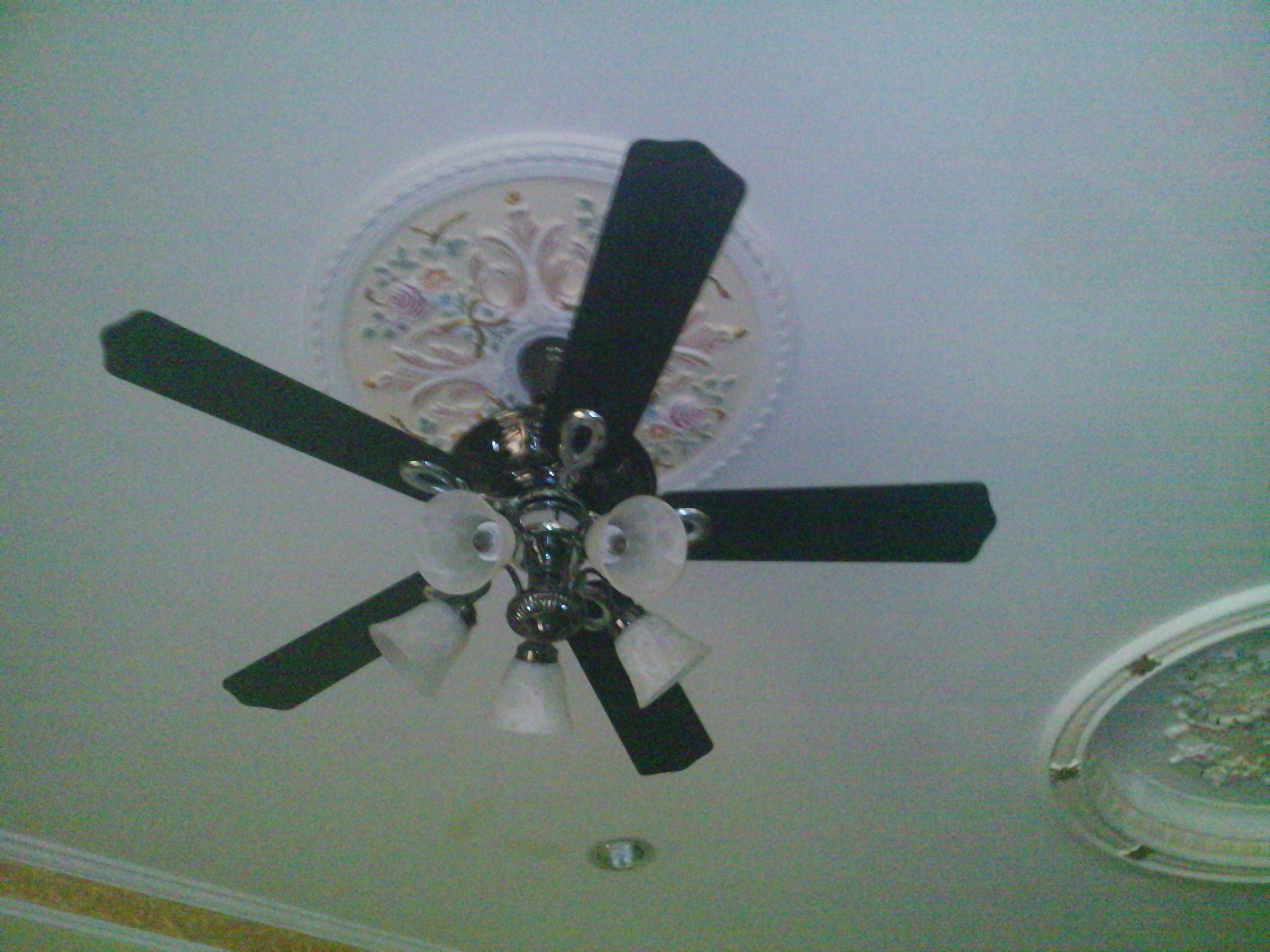 Ceiling fan in author's house in Segamat, Johor, Malaysia.